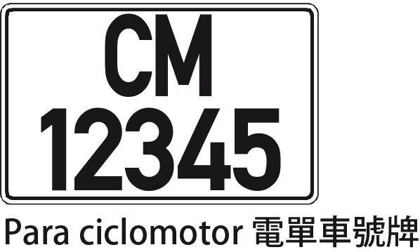 moped licence plate of Macau